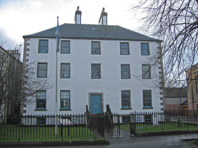 Balnain House, Inverness. On Huntly Street on the south side of the River Ness.1216239